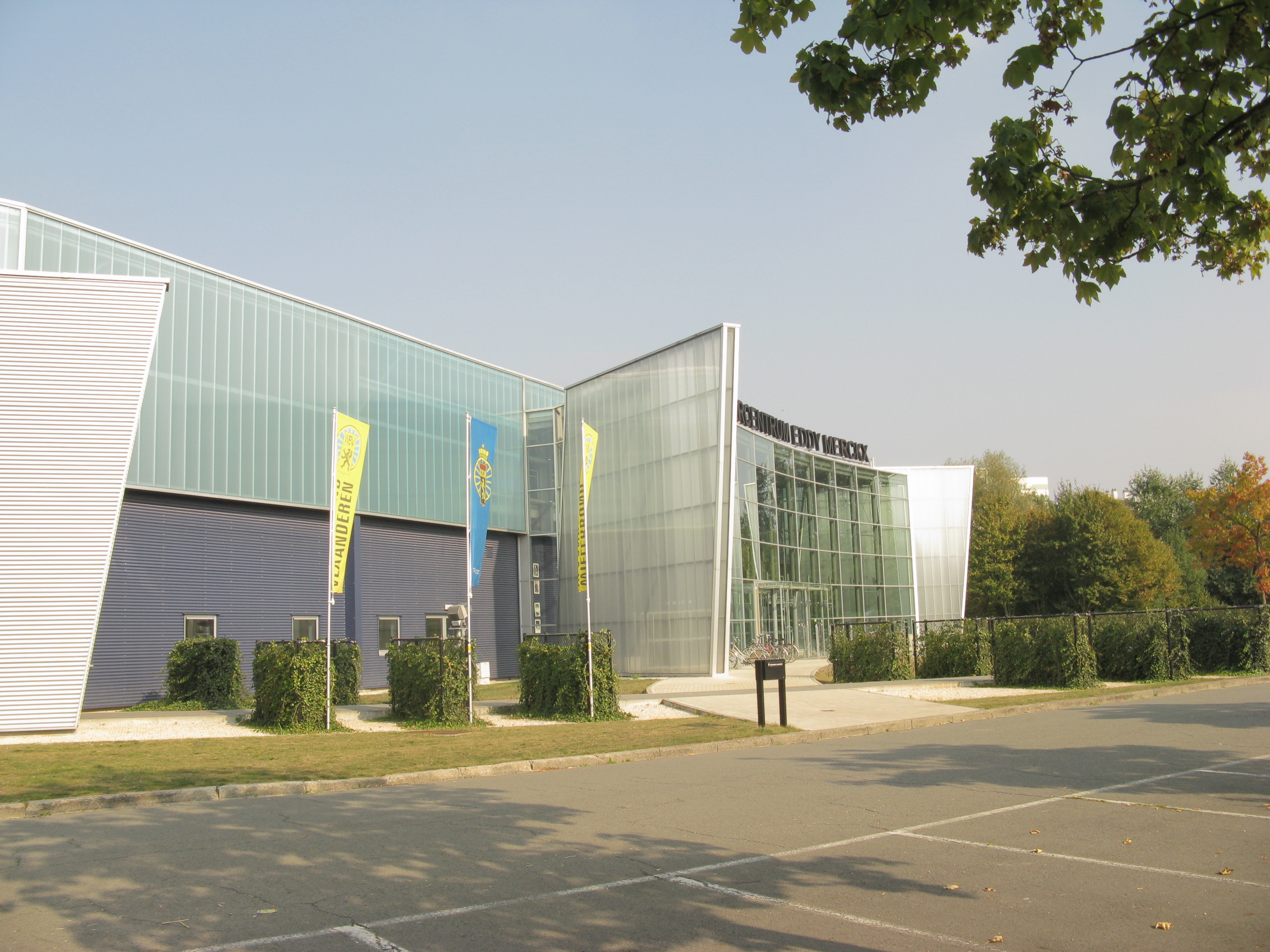 The indoor cycling track Eddy Merckx at the Blaarmeersen leisure centre in Ghent.